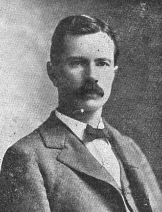 Morgan C. Fitzpatrick (Tennessee Congressman)